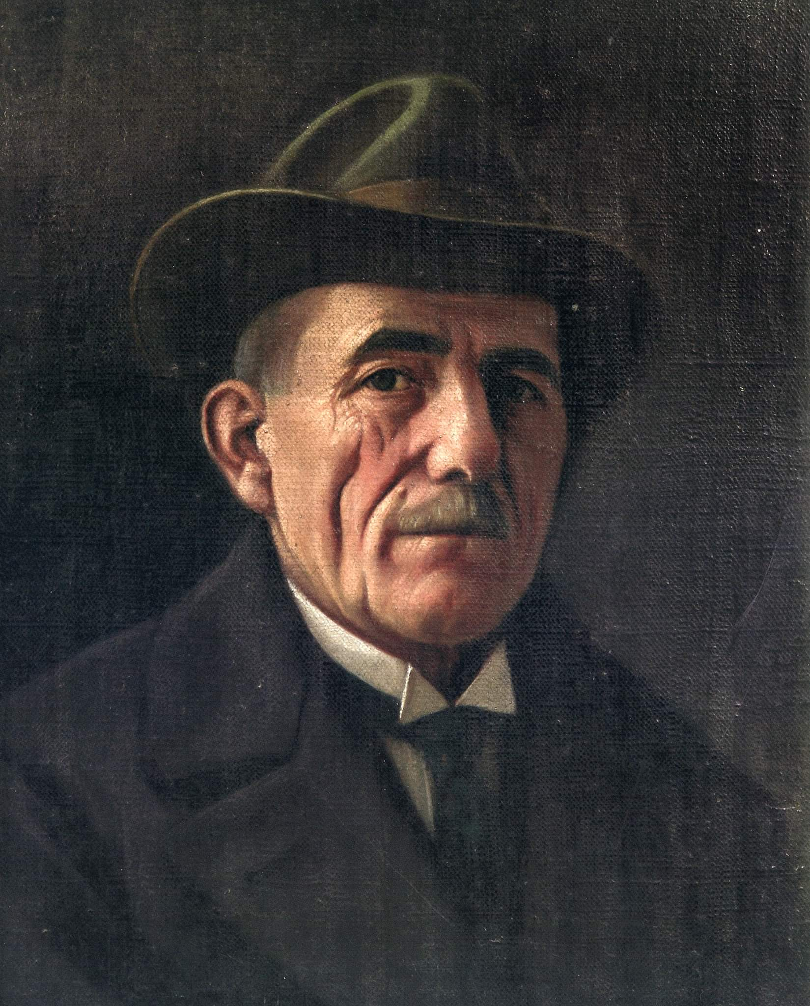 Kolë Idromeno (1860-1939): self-portrait in oil